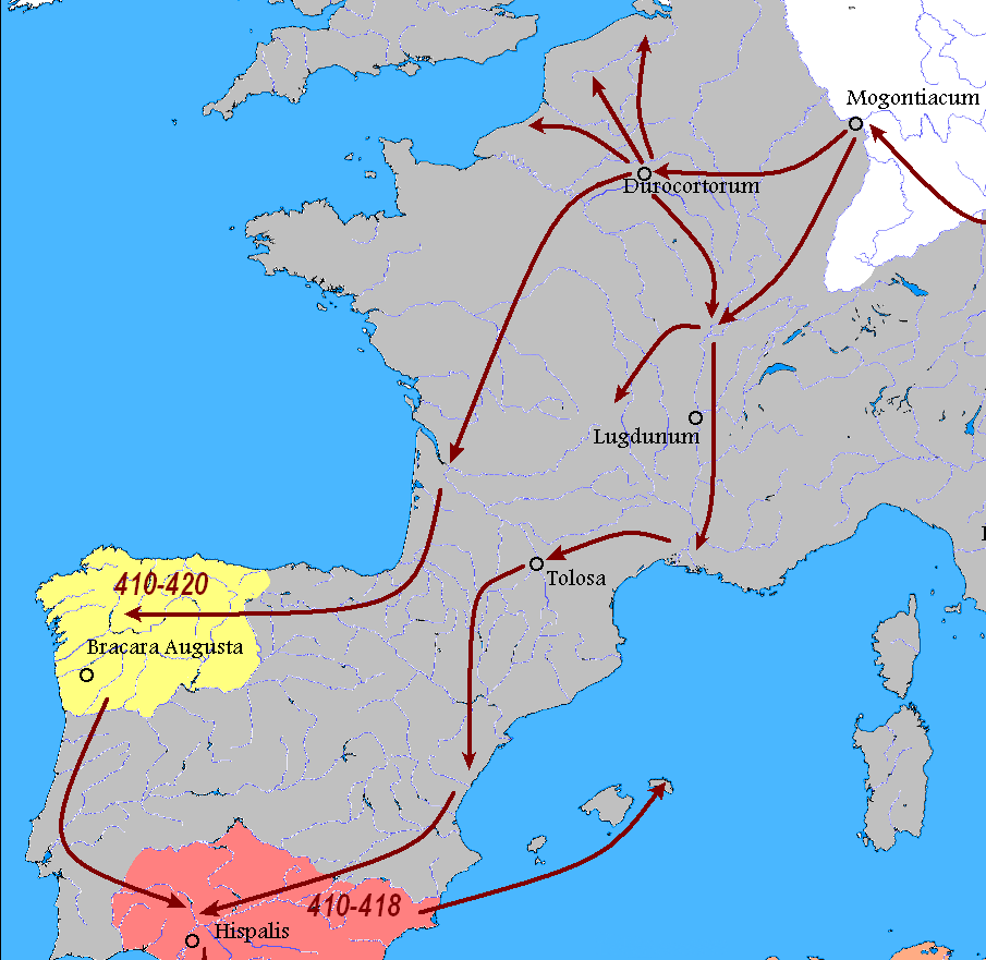 Cropped version of file Vandals Migration it.png to show the movements of the Vandals in France and Spain 406-418